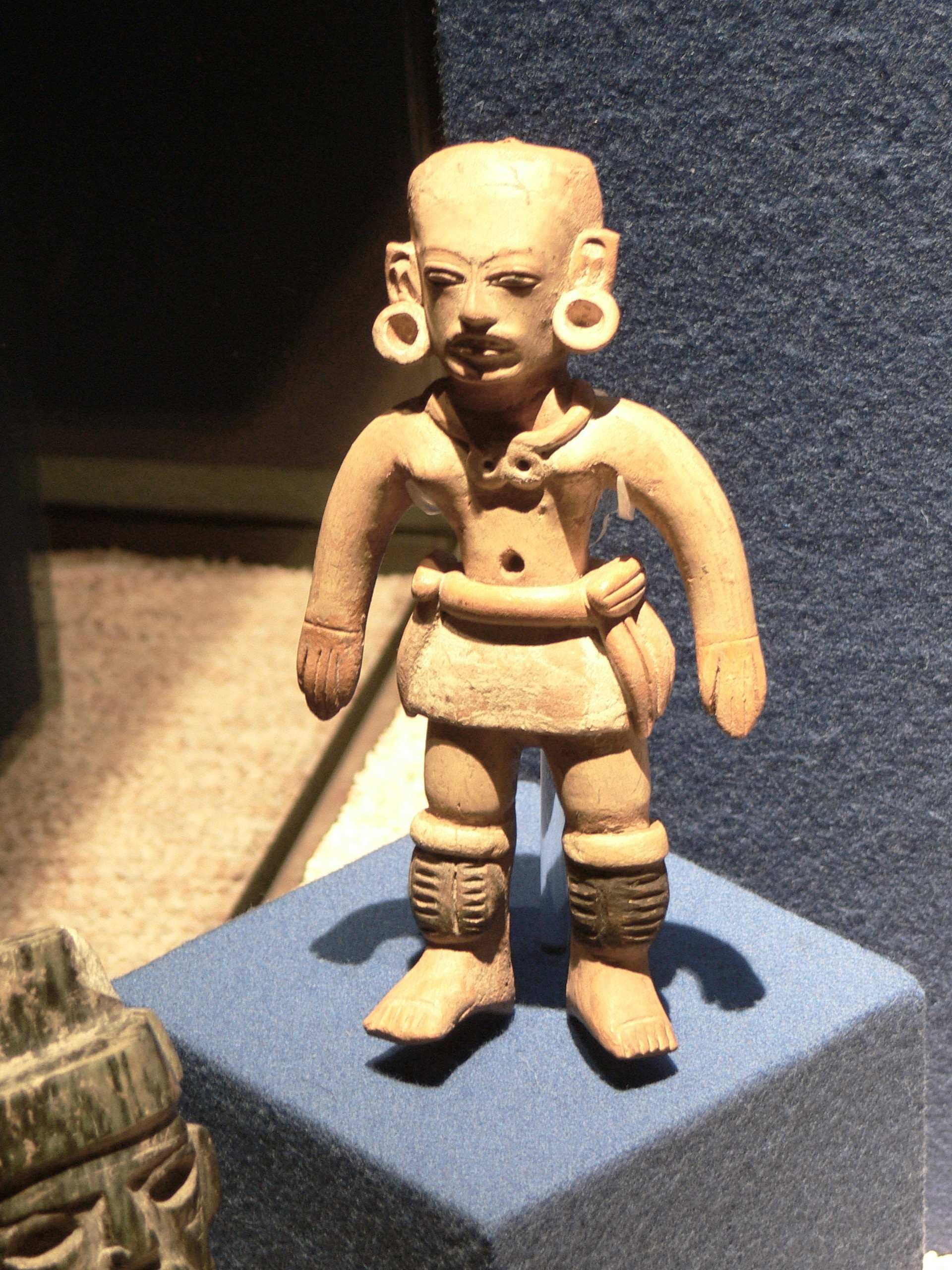 Museo del sitio, Teotihuacán. Statue of a noble man